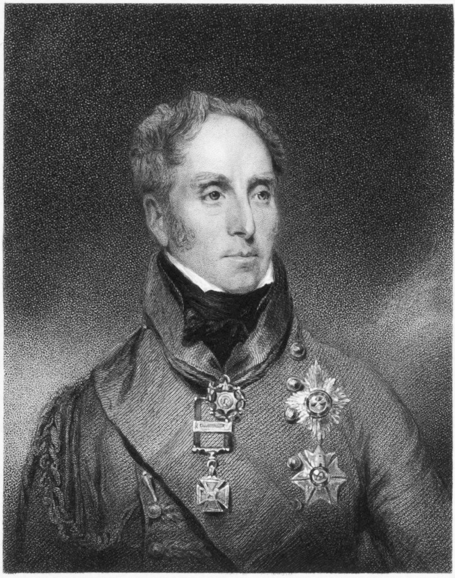 Sir James Leith (1763-1816), General and Governor of Leeward Islands stipple engraving 30.5 x 21.4 cm (plate)